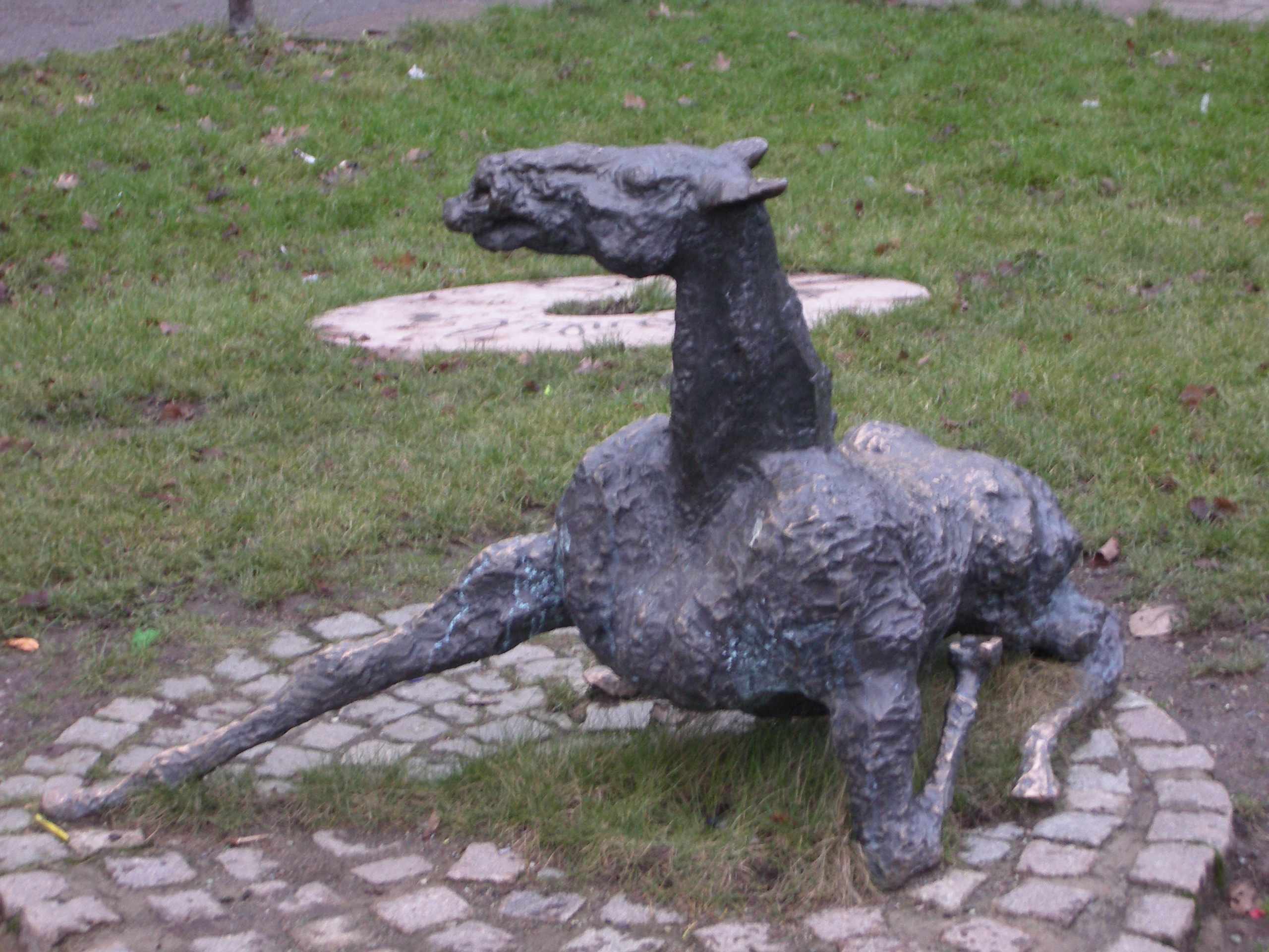 Asmund Arle: Häst som reser sig, Terapivägen, Flemingsberg, Huddinge. Detta exemplar är rest postumt 1994 och omges av ett verk av makan Lizzie Olsson-Arle, varav en del syns i bakgrunden. Detta verk heter Kärlek på sju språk och består av sju rundlar med ord och tecken för kärlek. Armund Arle´s sculpture Horse raising himself This copy of the sculpture was erected after the death of the artist and is encircled by a piece of work by the wife of the artist, Lizzie Olsson-Arle, one part shown in the background. It´s called Love in seven languages och consists of seven circles of stones that are encraved with various words of and signs for love.